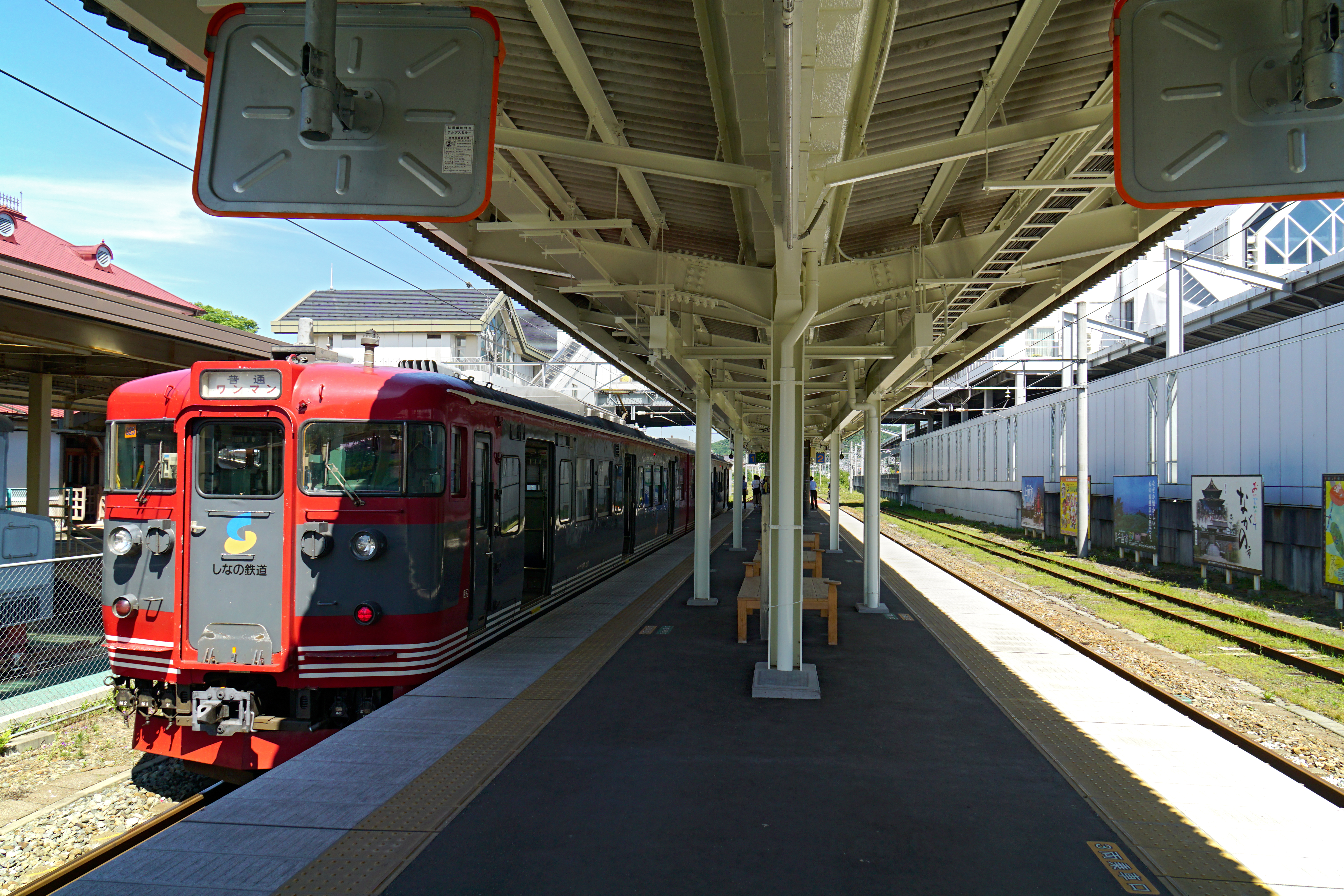 A Shinano Railway 115 series EMU at Karuizawa Station in Karuizawa, Nagano prefecture, Japan